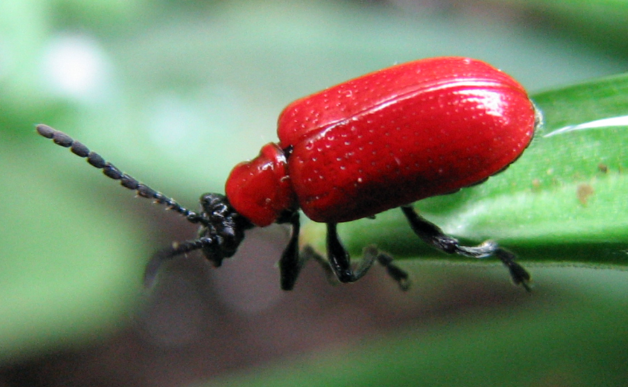 A Red Lilly Beetle (Lilioceris lilii) on a lily leaf.